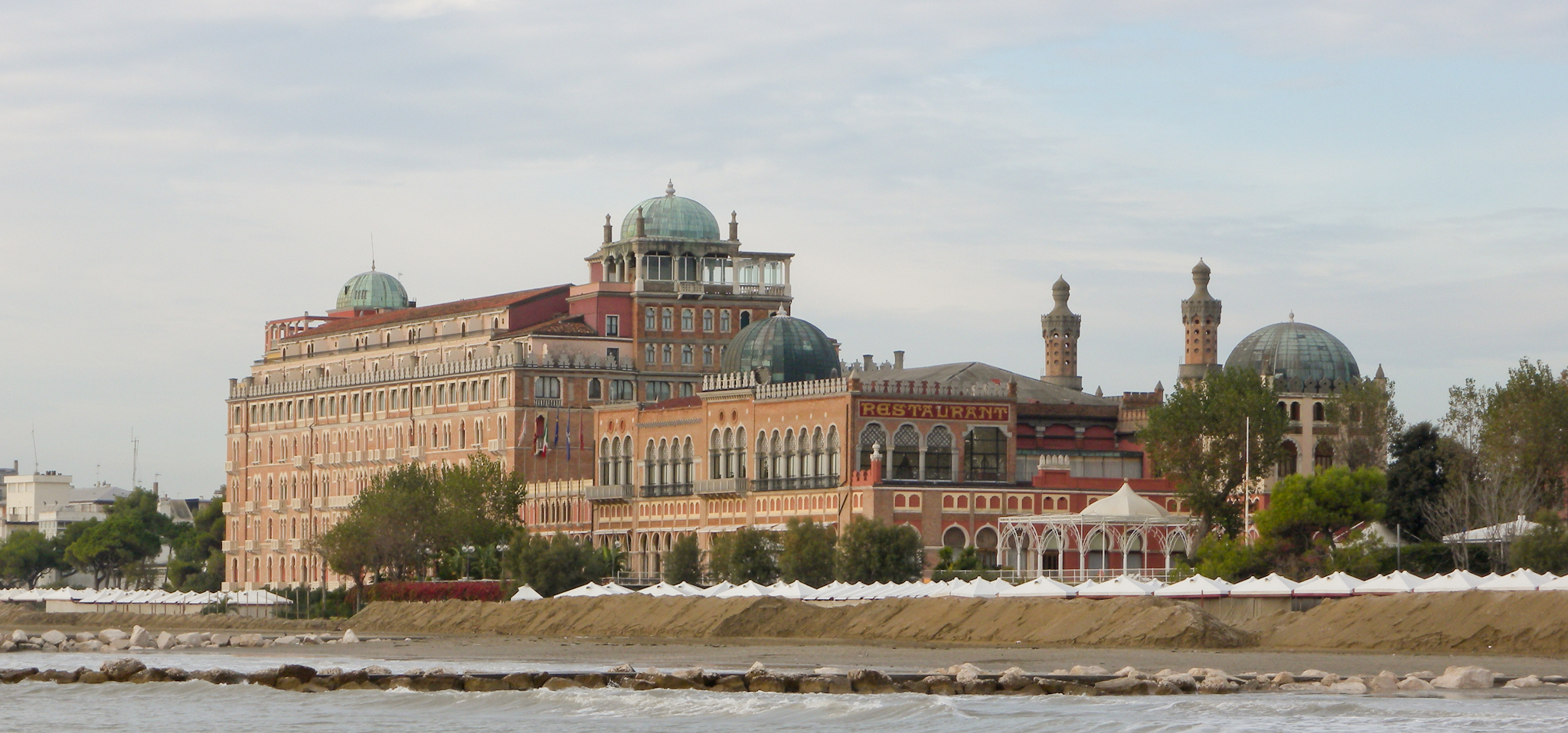 north east side of Hotel Excelsior on Lido di Venezia